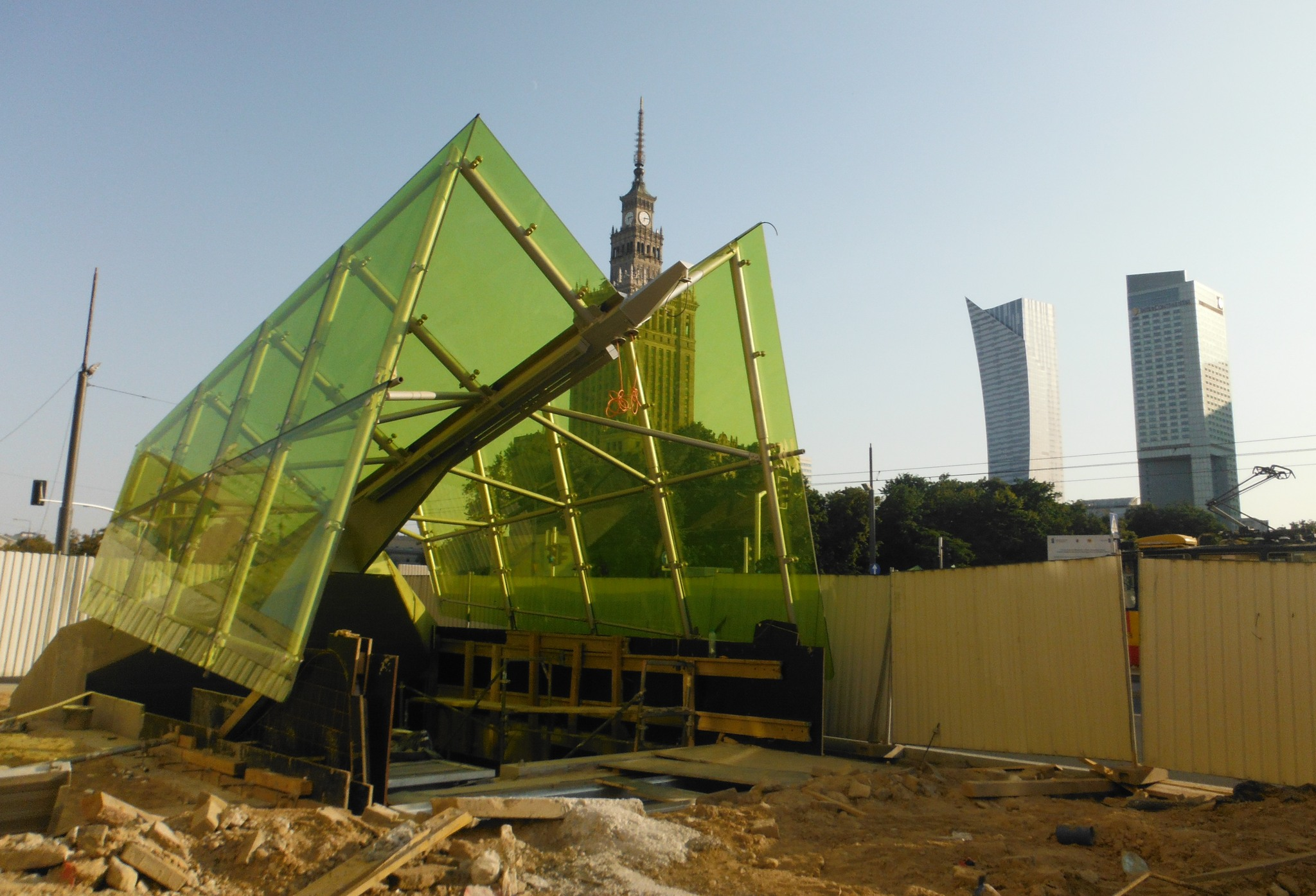 Świętokrzyska metro station (under construction) in Warsaw (2nd of August 2014).